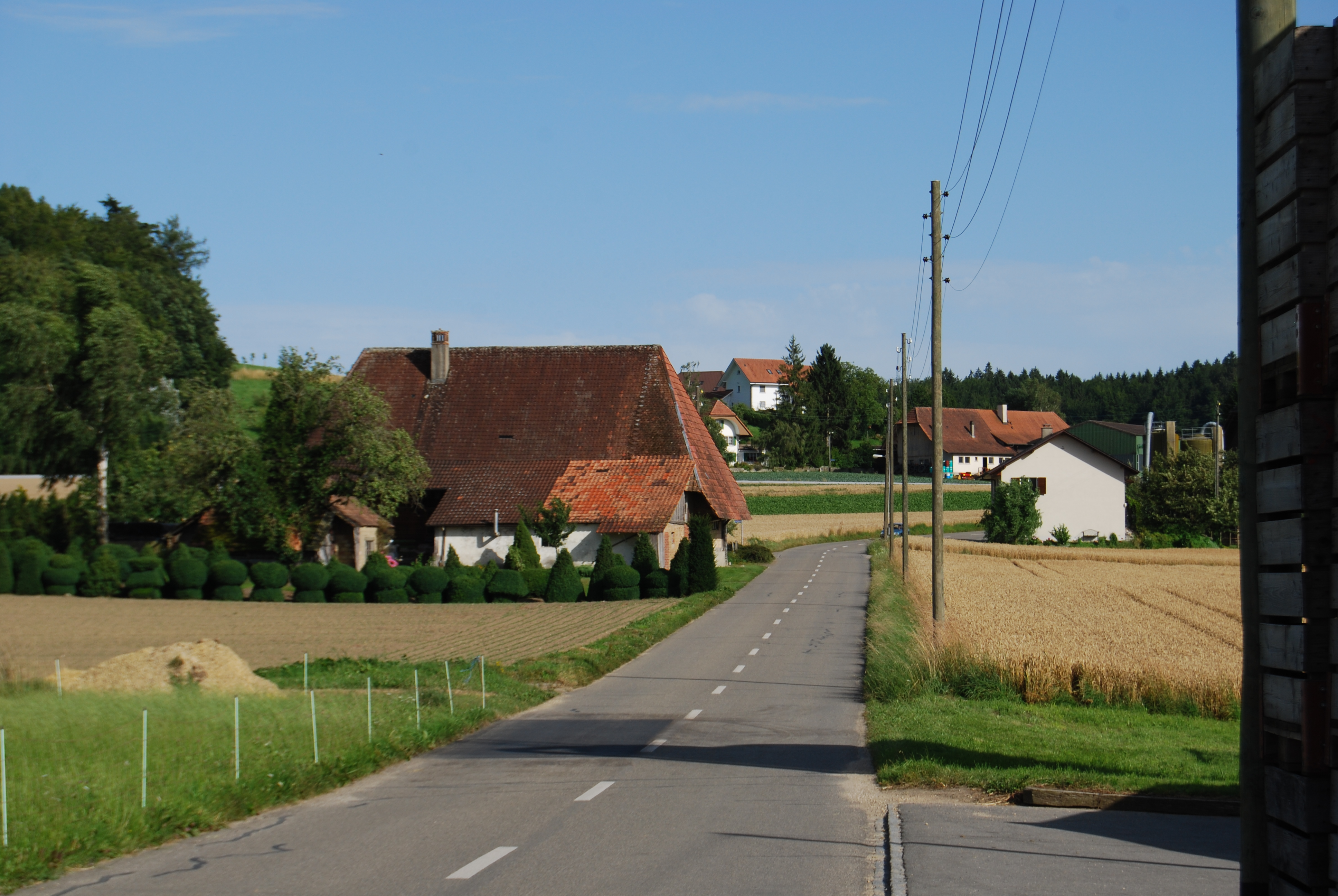 Golaten, canton of Bern, SwitzerlandEsperanto: Golaten, Kantono Berno, Svislando